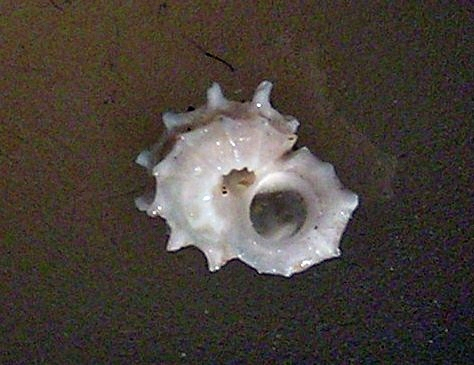 Liotina crenata (Kiener, 1839), a sea snail from the family Liotiidae; Philippines Category:Liotiidae